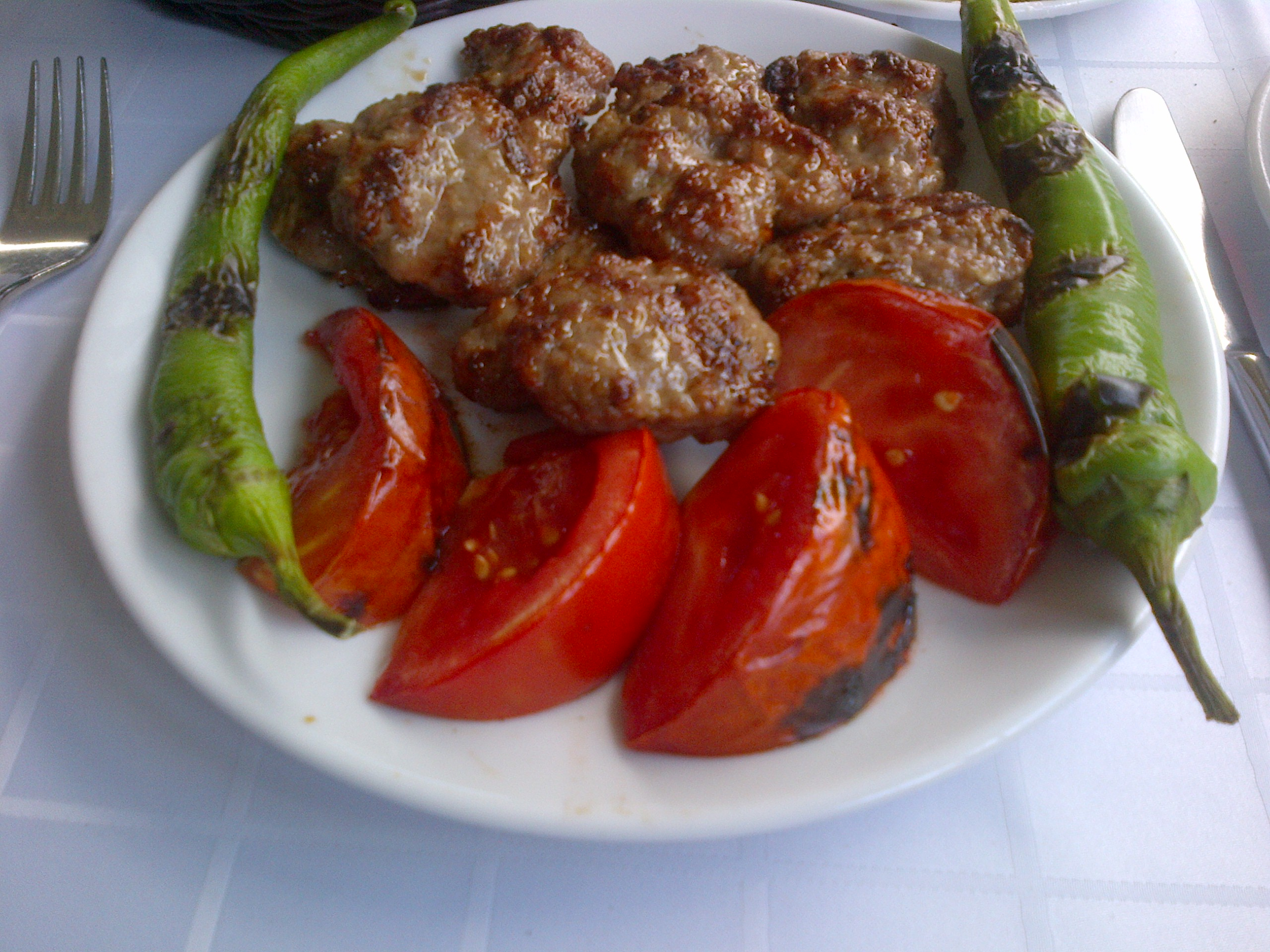 İnegöl köfte or inegöl meatballs from Bursa, Turkey.